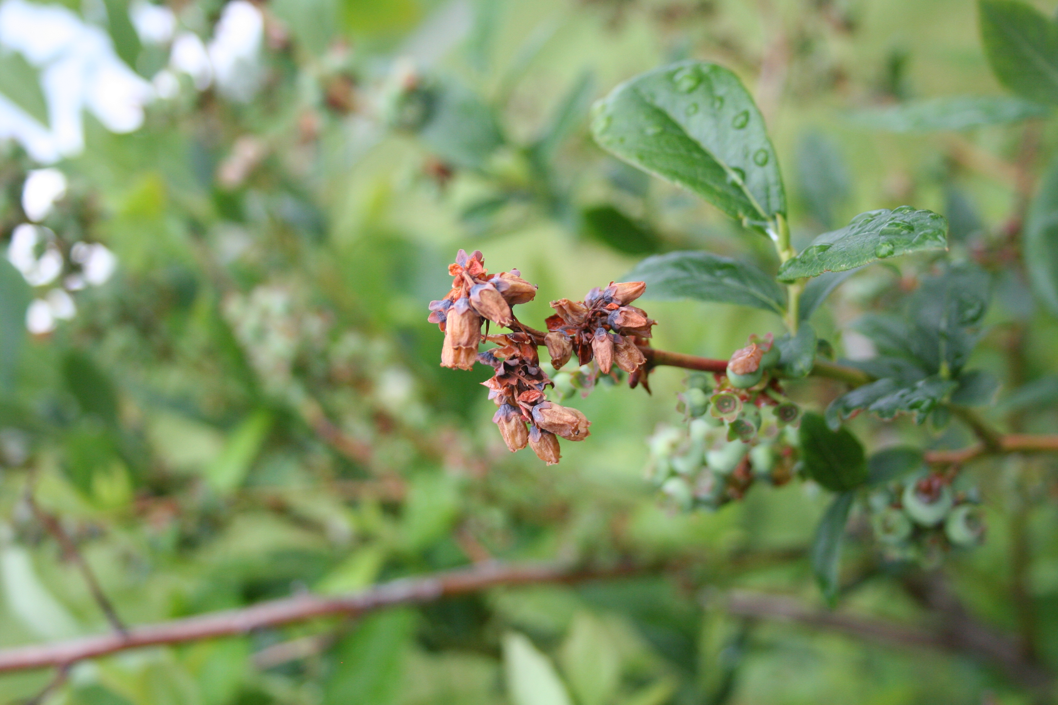 Bluberry flowers on a bush infected by blueberry shock virus